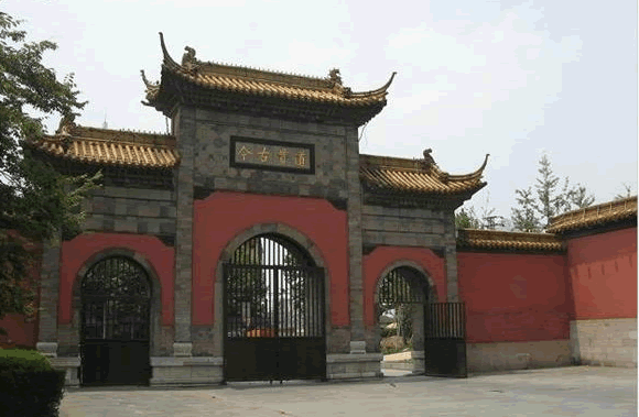 Gate Paifang of "Tao is Universal Through All Times" ("道貫古今"), in fomer campus site Chaotian Palace.